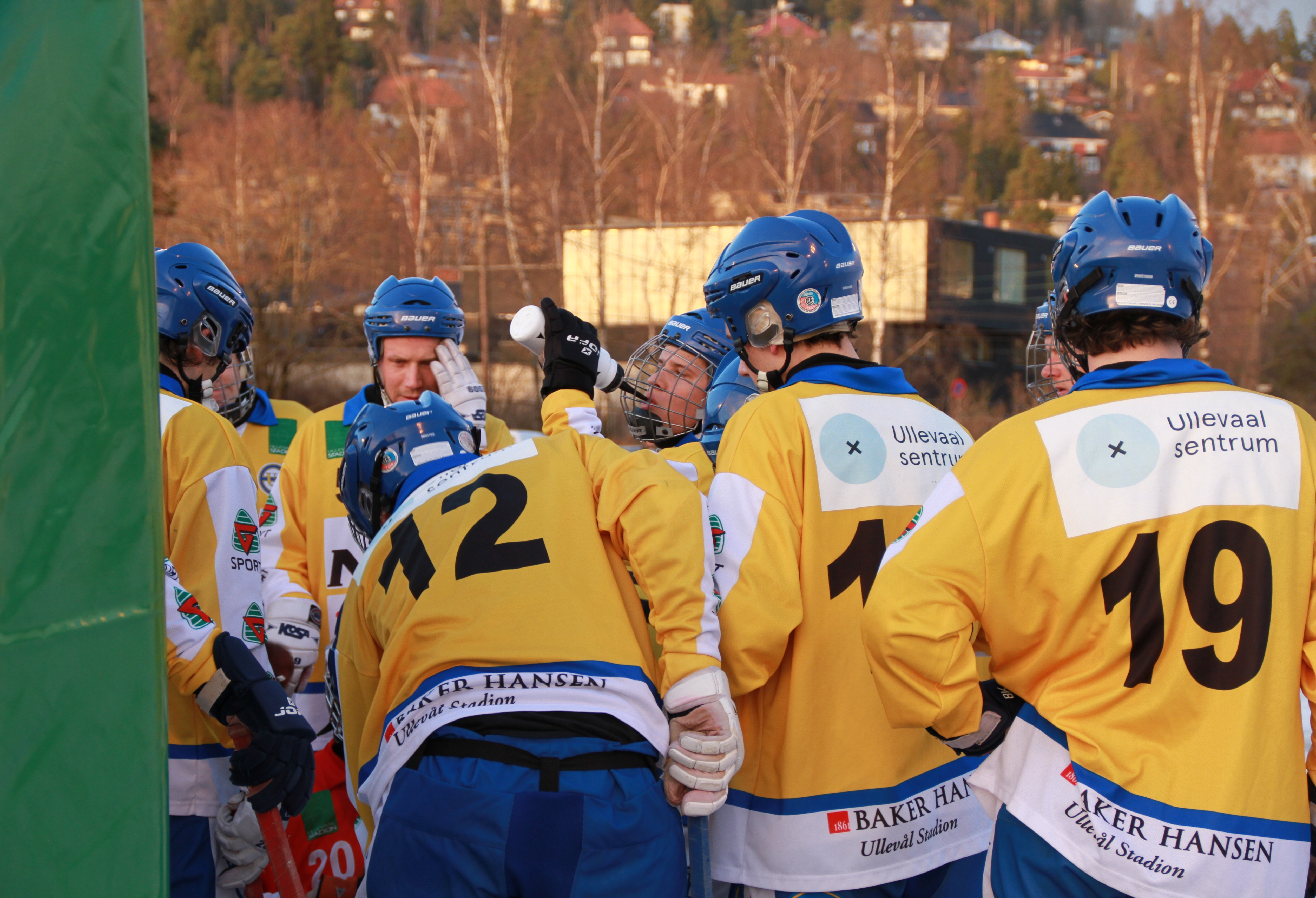 Bandy players representing the club Ullevaal Bandy (Oslo). Photo from a time-out during December 26, 2011 match between Ready and Ullevaal Bandy, at Gressbanen Arena, Oslo.